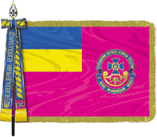 Call flag of agencies, departments, educational institutions of Ukrainian Security Service